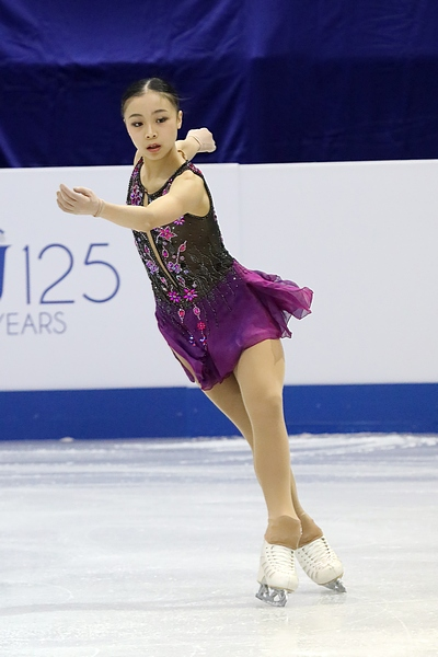 Photos – Junior World Championships 2017 – Ladies